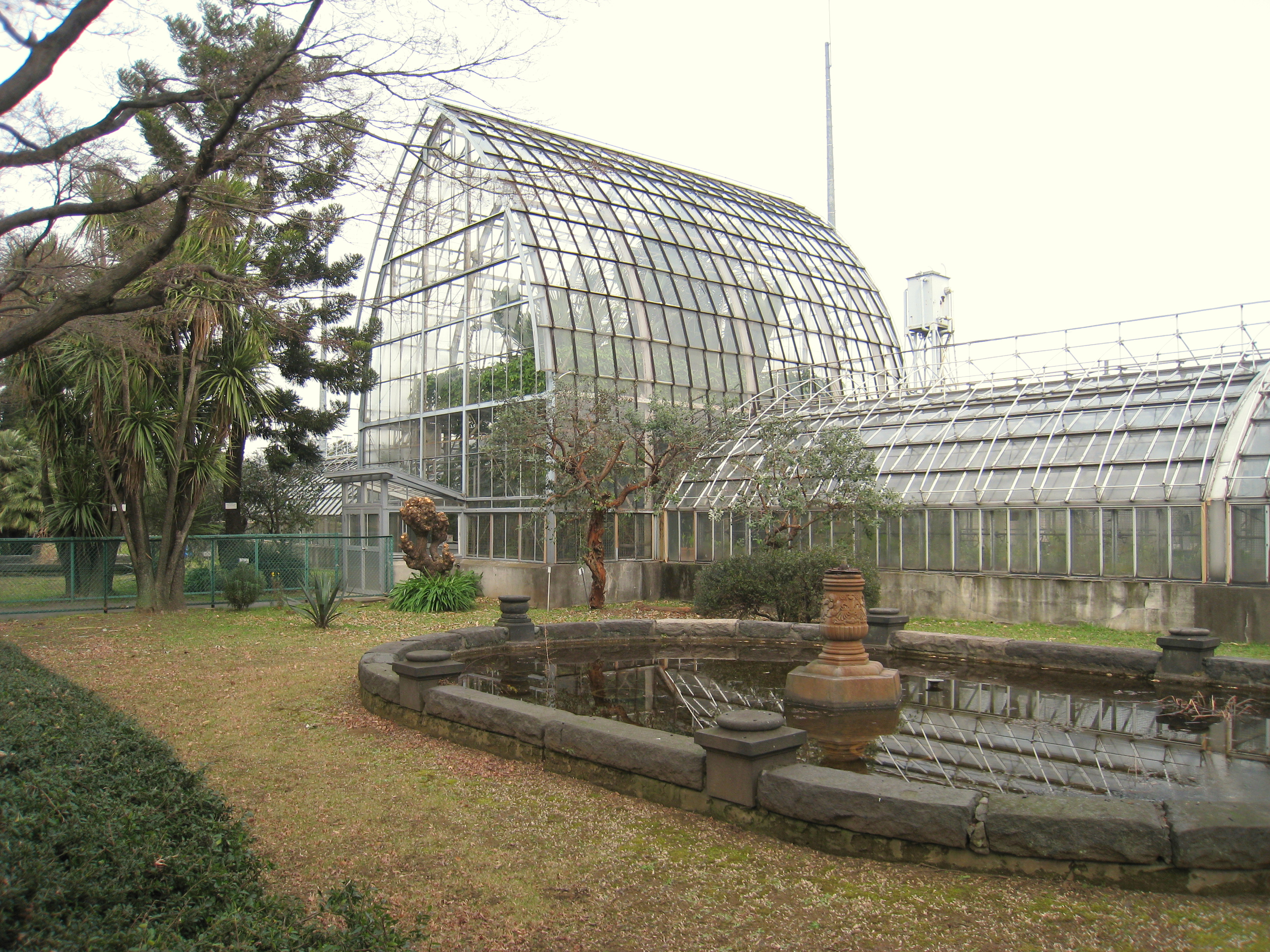 Koishikawa Botanical Gardens, Tokyo, Japan - glass house.